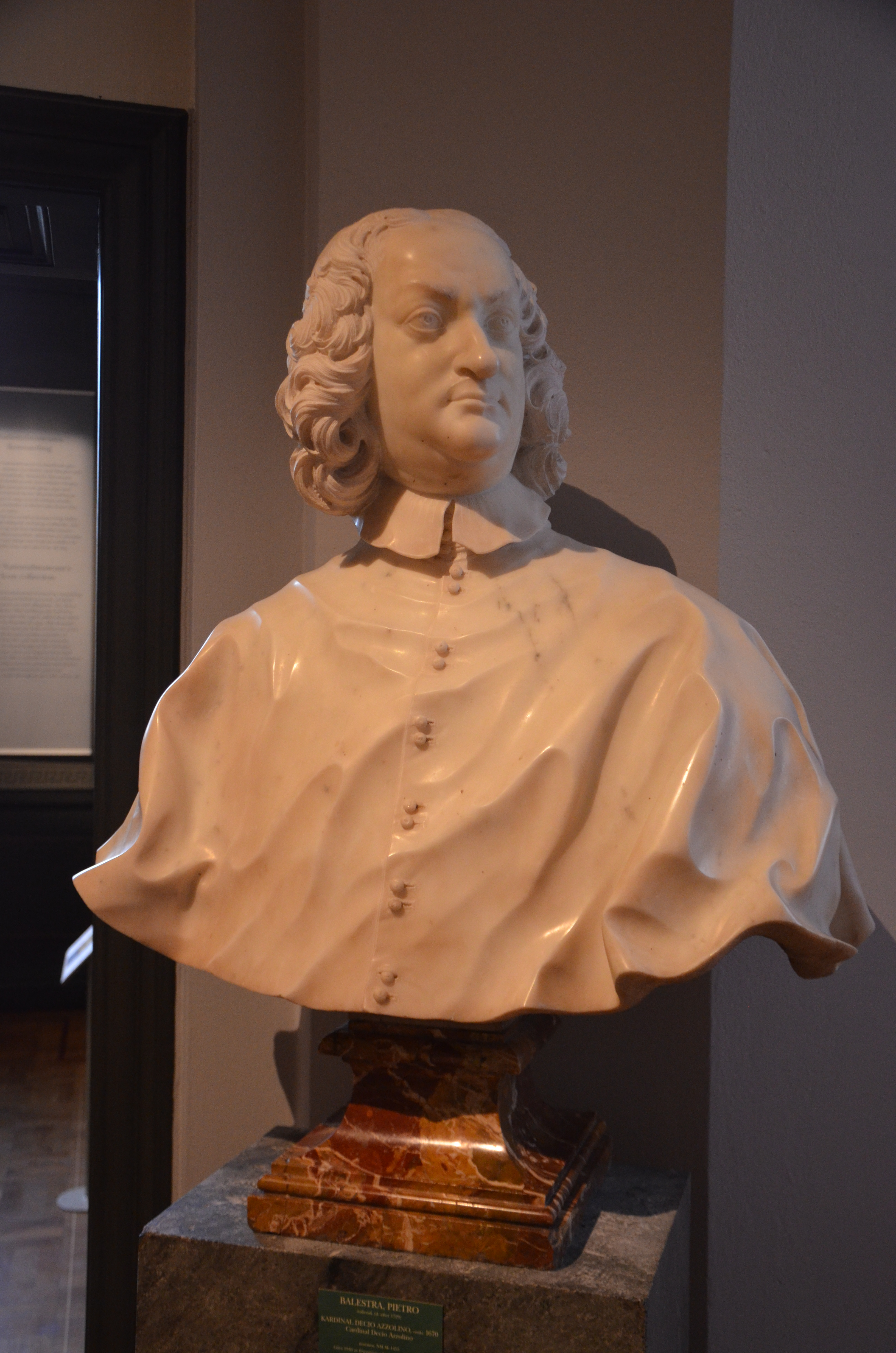 Pietro Balestra: Decio Azzolino, ca. 1670. Nationalmuseum, Stockholm